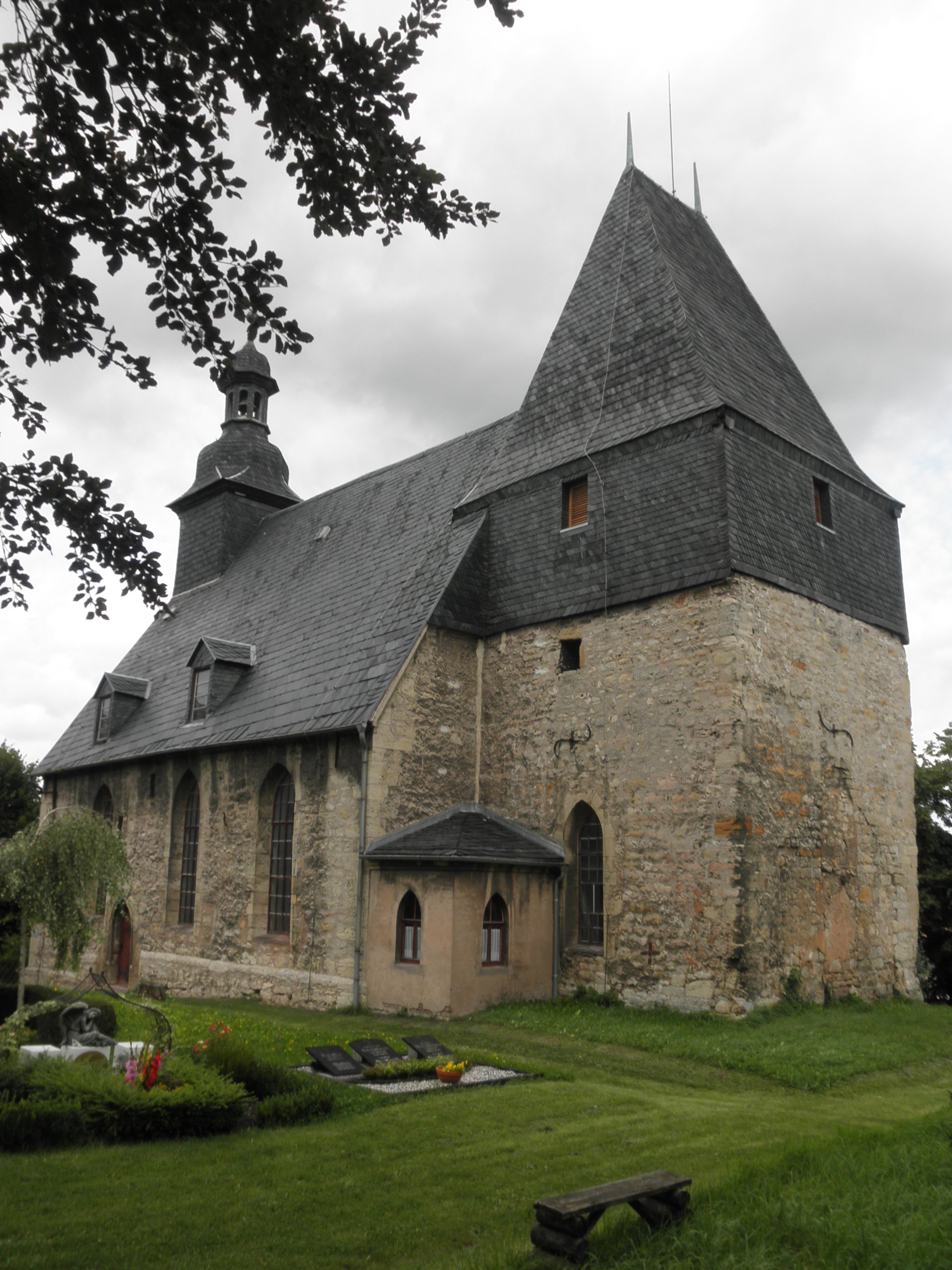 Church in Hachelbich in Kyffhäuserkreis in Thuringia